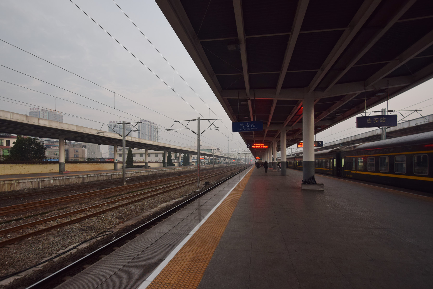 Platform 1-3 of Ji'an Railway Station, view towards Jishui Railway Station.